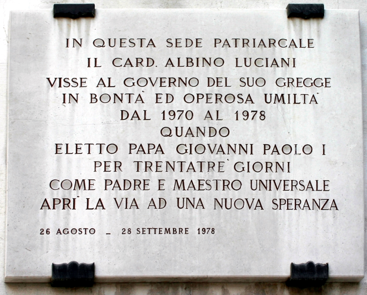 Venice, Plaque commemorating pope John Paul I, previously a Patriarch of Venice, on the facade of the Palazzo patriarcale (the palace of the bishops of Venice). Picture by Giovanni Dall'Orto, August 8, 2007.